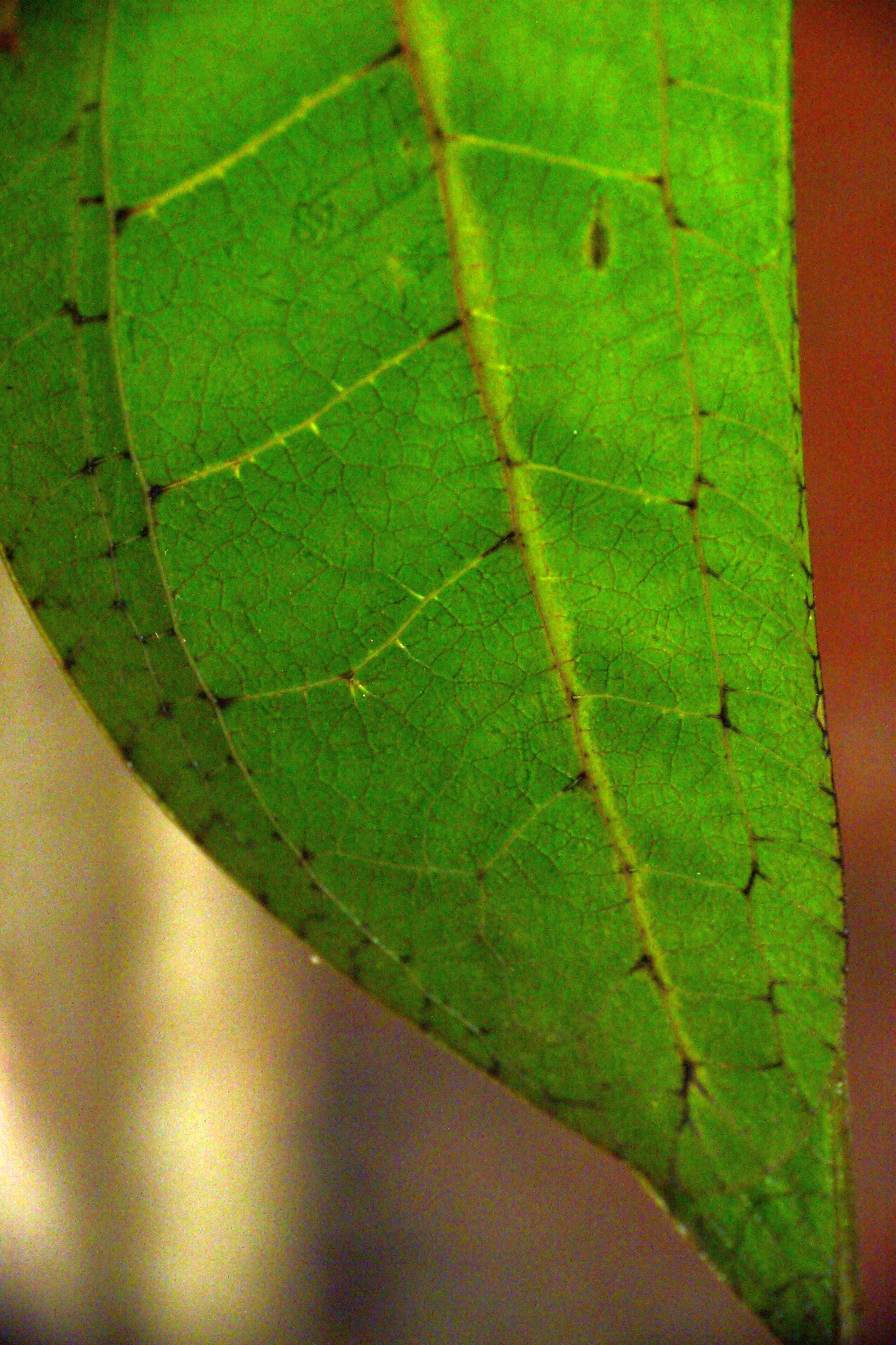 Onomarchus sp. wing detail, family Pseudophyllinae. Castle Rock, Uttara Kanara, India